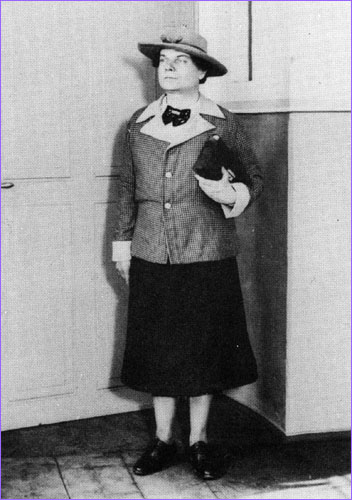 French Lieutenant Bouley, an officer of the Chasseurs Alpins (Alpine Hunters) was captured by Oflag IV-C security guards within minutes after escape, when this photo was taken, Bouley had dropped his watch, as was observed by a German guard. When the guard shouted "Hey, Fräulein, your watch!", in German, Bouley did not respond and this raised the suspicion that led to recapture.